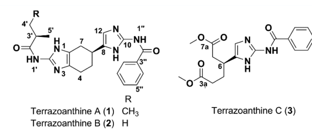 Structure of terrazoanthines A−C from Terrazoanthus onoi.